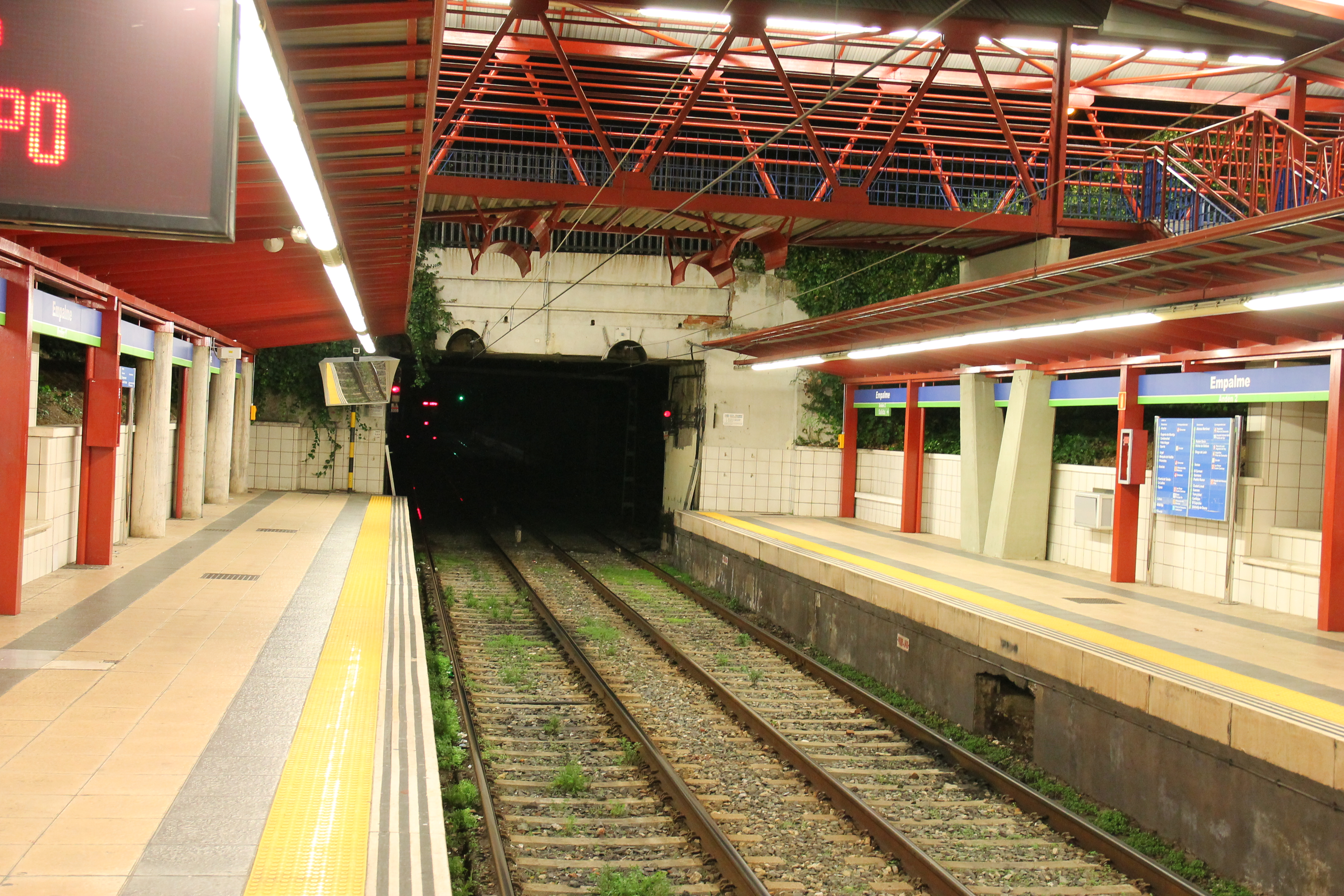 Estación de Empalme